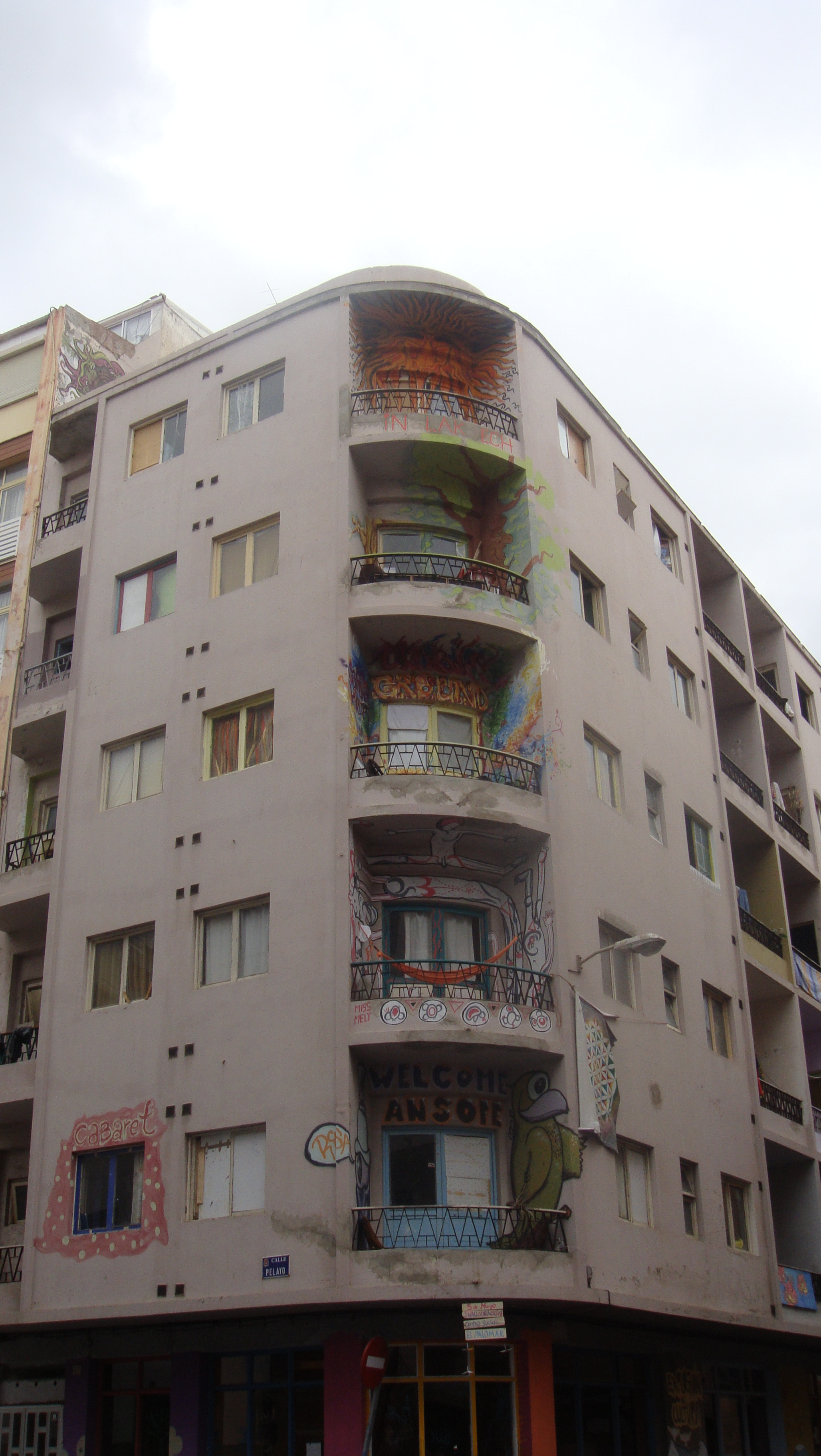 Squat Palomar in Las Palmas.